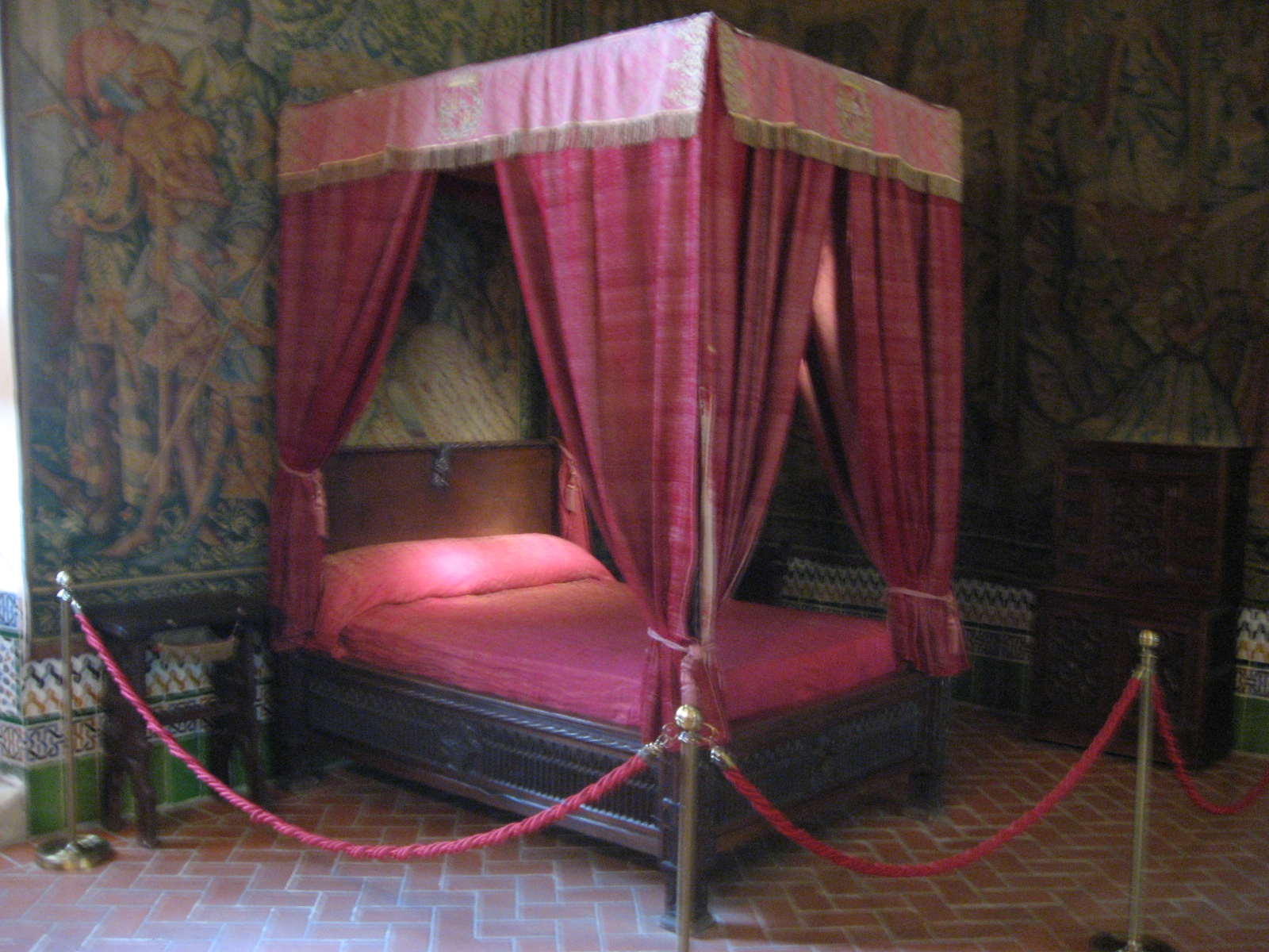 Royal Chamber in the Alcázar of Segovia